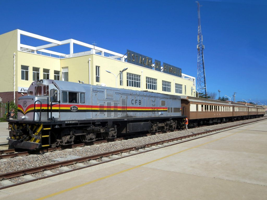 Locomotive D-133 arrives at the railway station in Benguela, Angola. Opened in 1902, the Caminho de Ferro de Benguela originally ran to Lubumbashi in the Belgian Congo but currently only operates from Lobito.